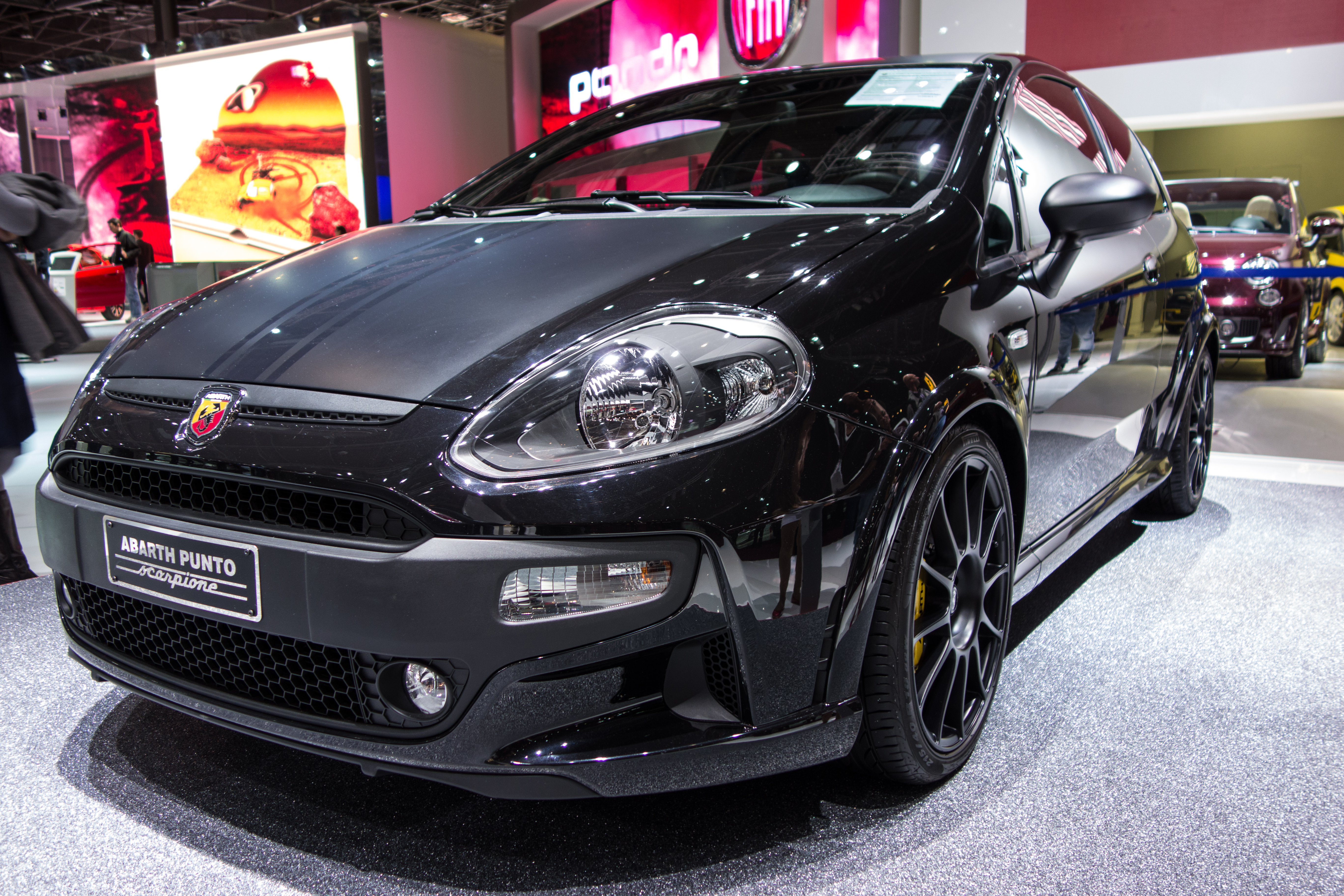 Mondial De L'automobile Paris 2012 | Paris Motor Show 2012